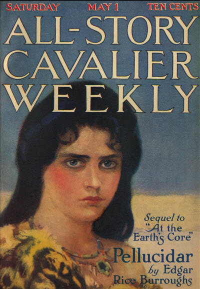 All-Story Weekly, May 1, 1915